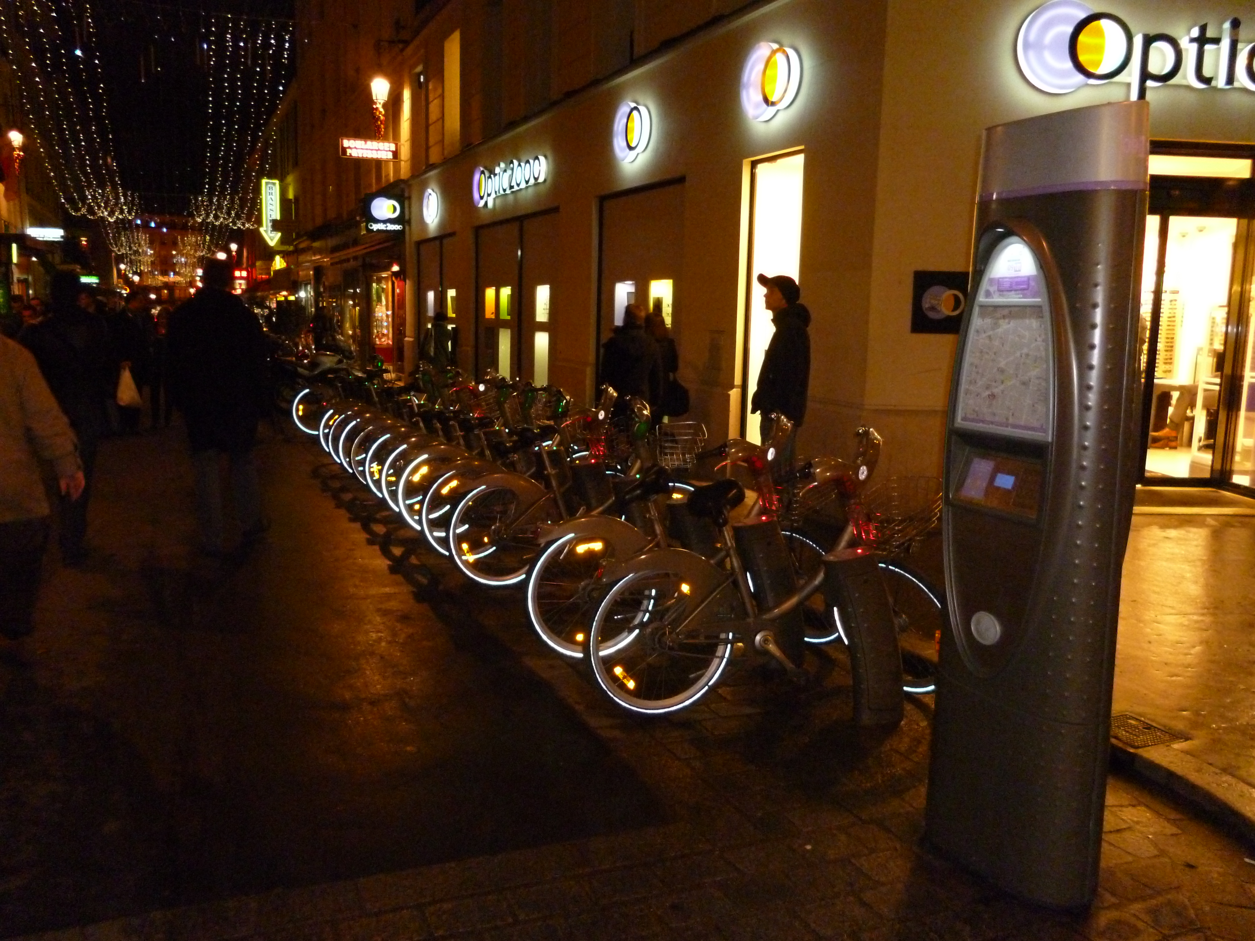 Velib Station at night Cadet Street, District 9th.jpg